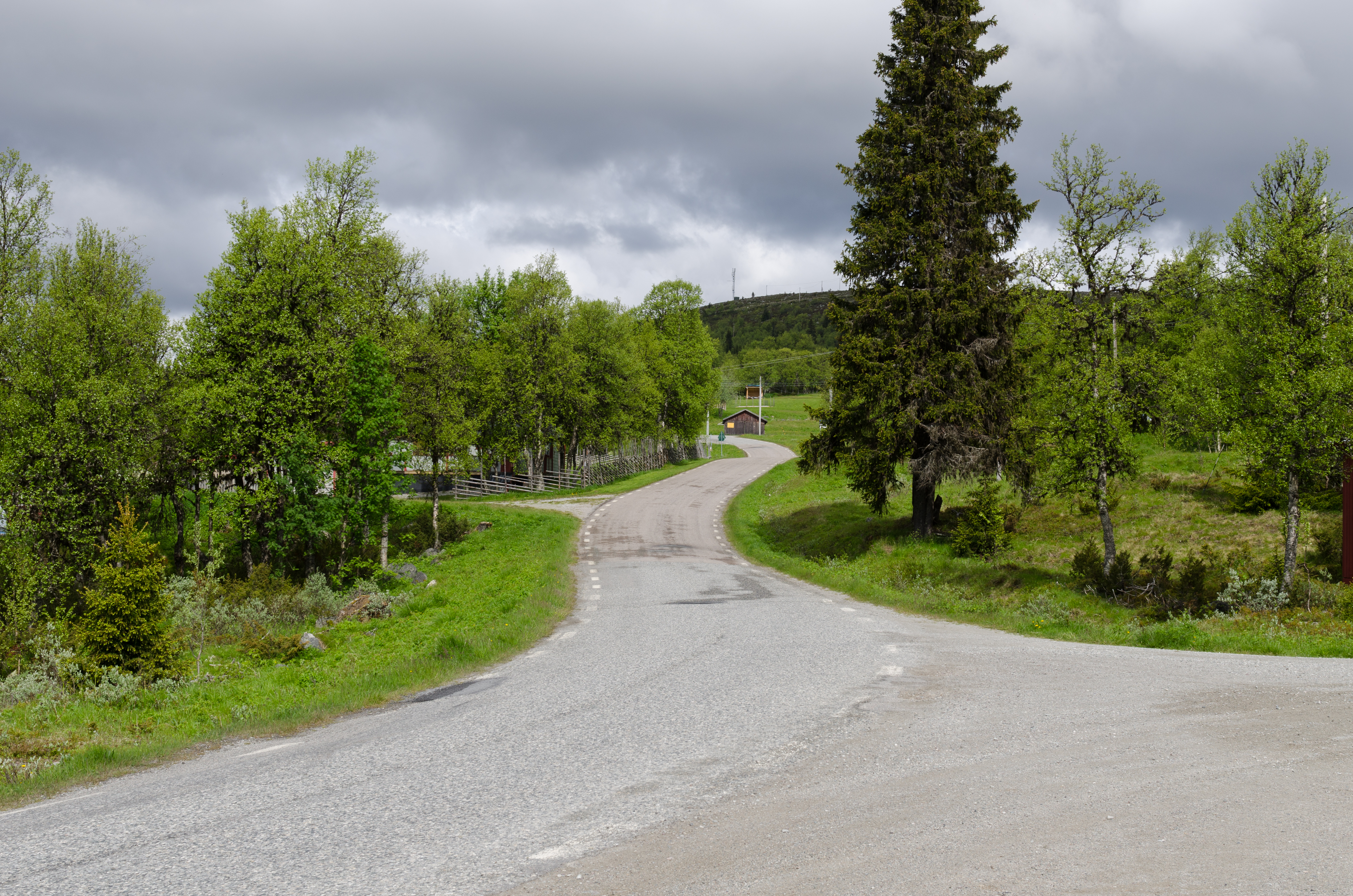 Länsväg (Swedish county road) 311 in Högvålen. At 835 metres (2738 feet) above sea level, Högvålen is Sweden's highest continuously inhabited village.